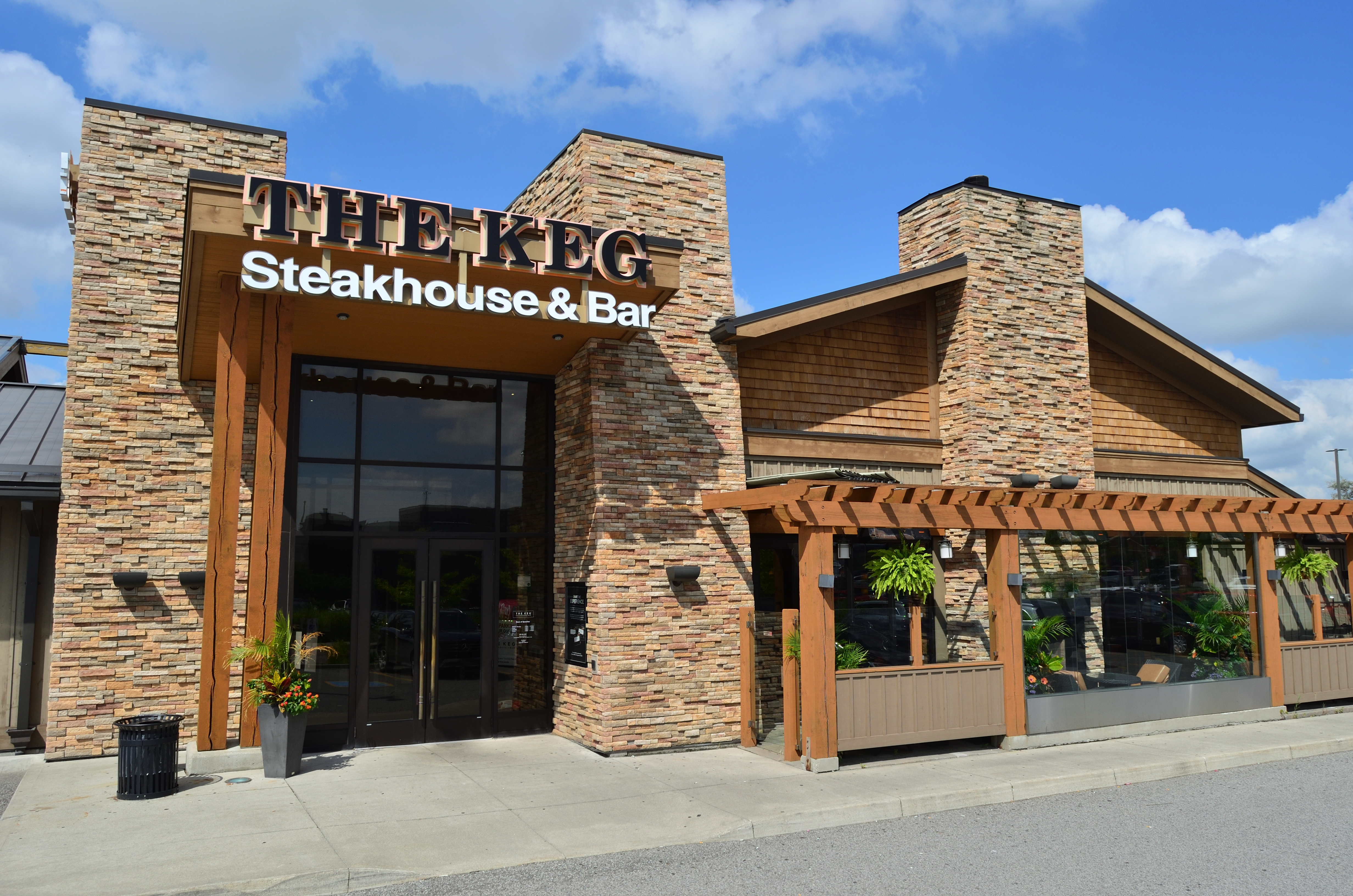 The Keg Richmond Hill - Address: 162 York Boulevard, Richmond Hill, Ontario L4B 3J6